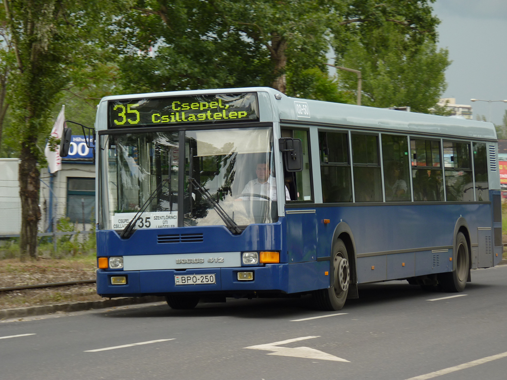 Kép az Ikarus 412 BPO-250-ről